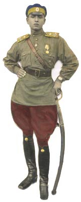 Uniform of Husar 4-th Mariupol Regiment. 1923.